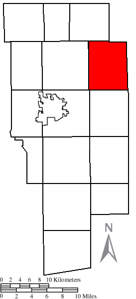 Originally created by the US Census. Modified by myself to highlight the township.